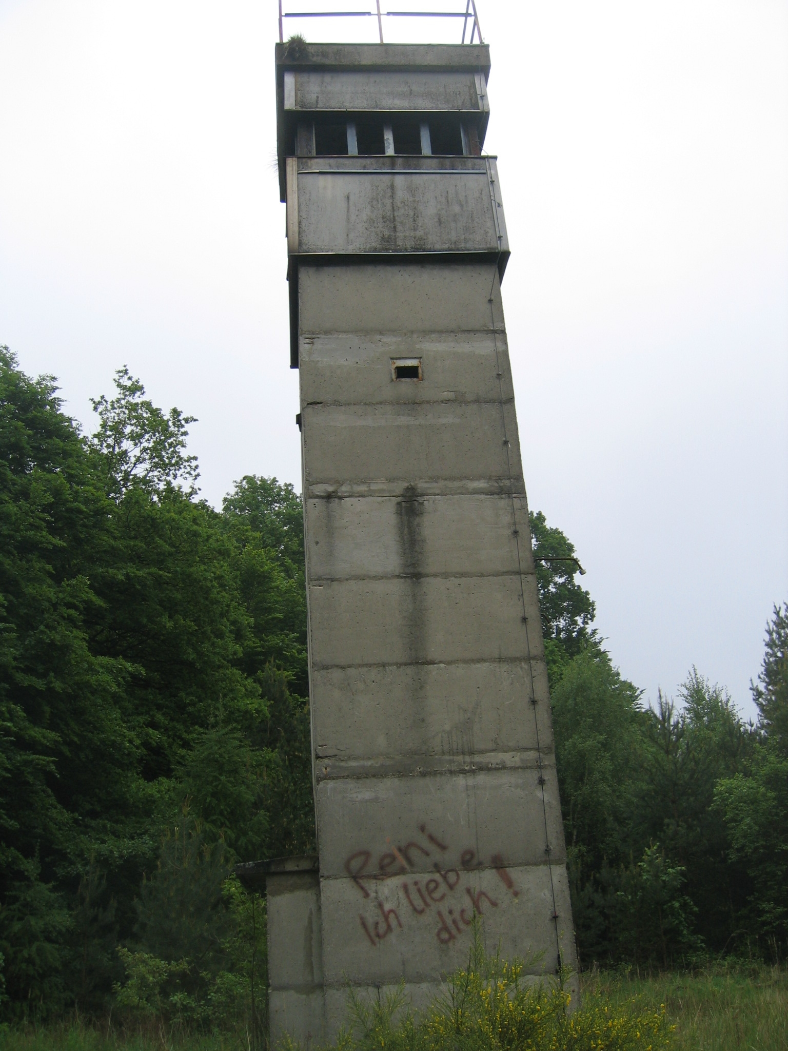 Old GDR watchtower at former border between East and West Germany. Situated in Lappwald area northeast of Helmstedt, Lower-Saxony, Germany.